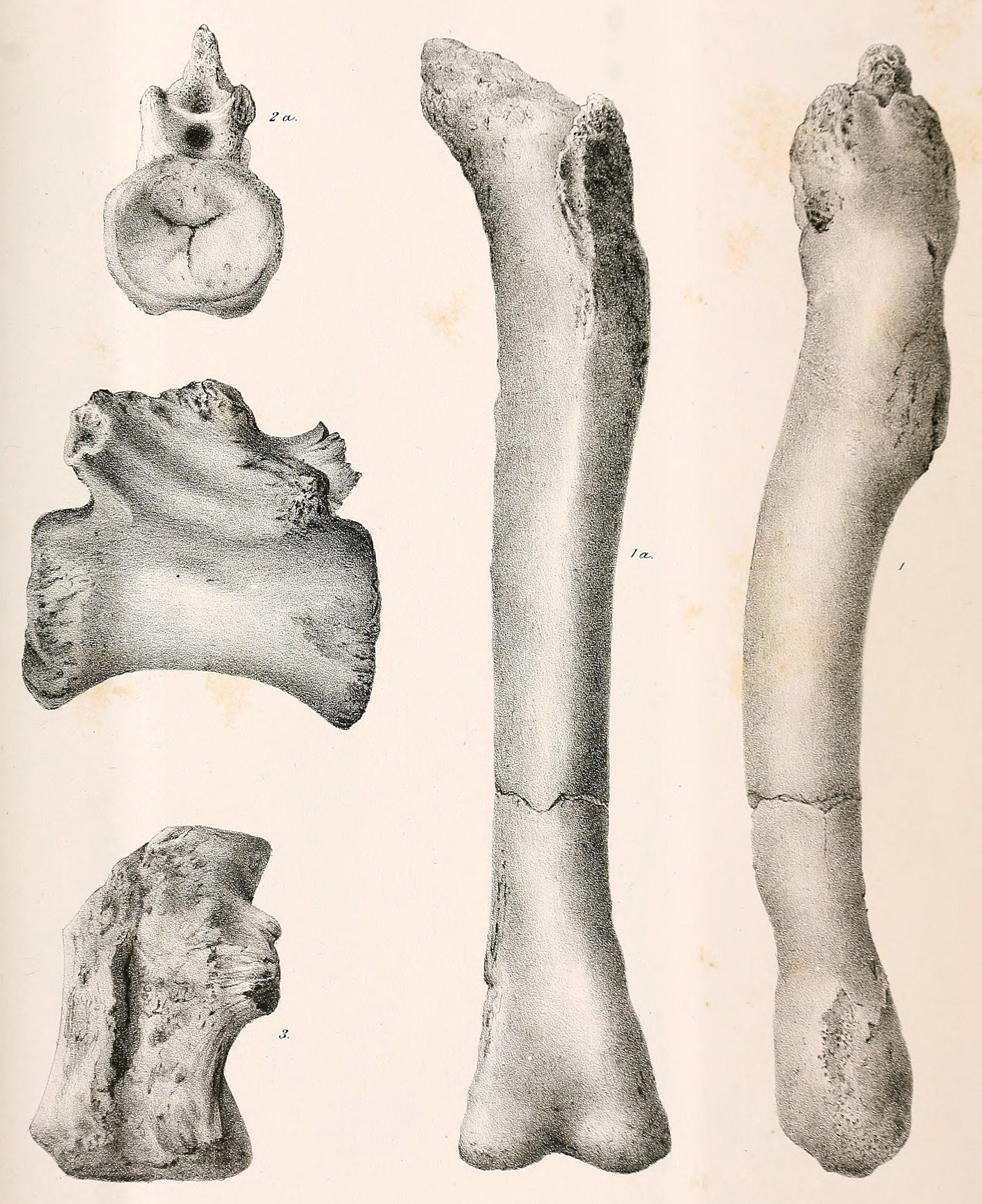 Fossil remains of Dryptosaurus/Laelaps.